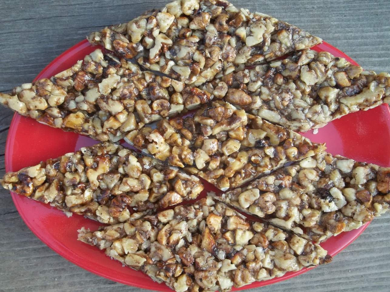 Gozinaki, traditional Georgian walnut brittle